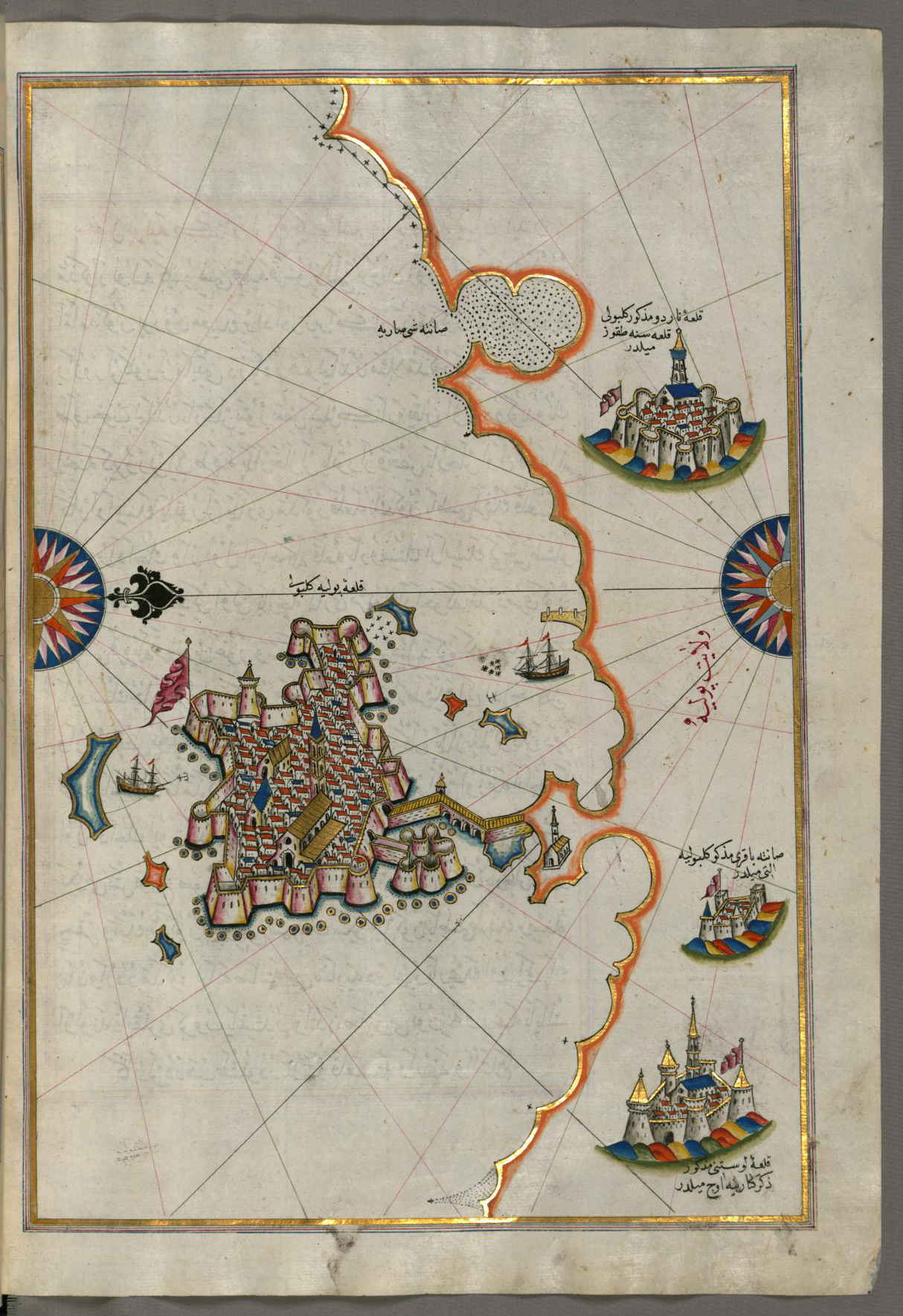 This folio from Walters manuscript W.658 contains a map of the towns of Gallipoli (Kelibuli) and Nardo on the Italian coast.